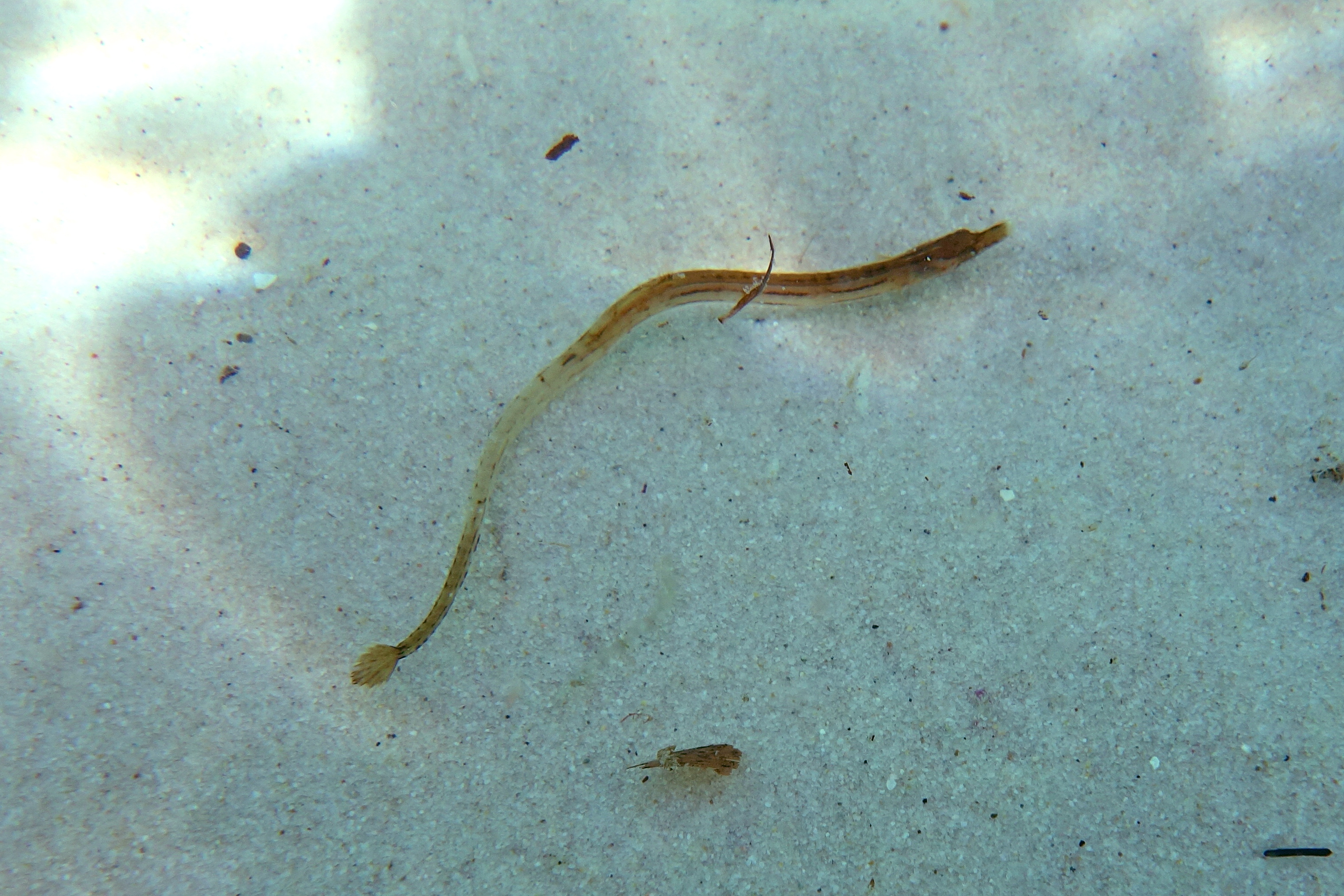 Green Patch, Jervis Bay